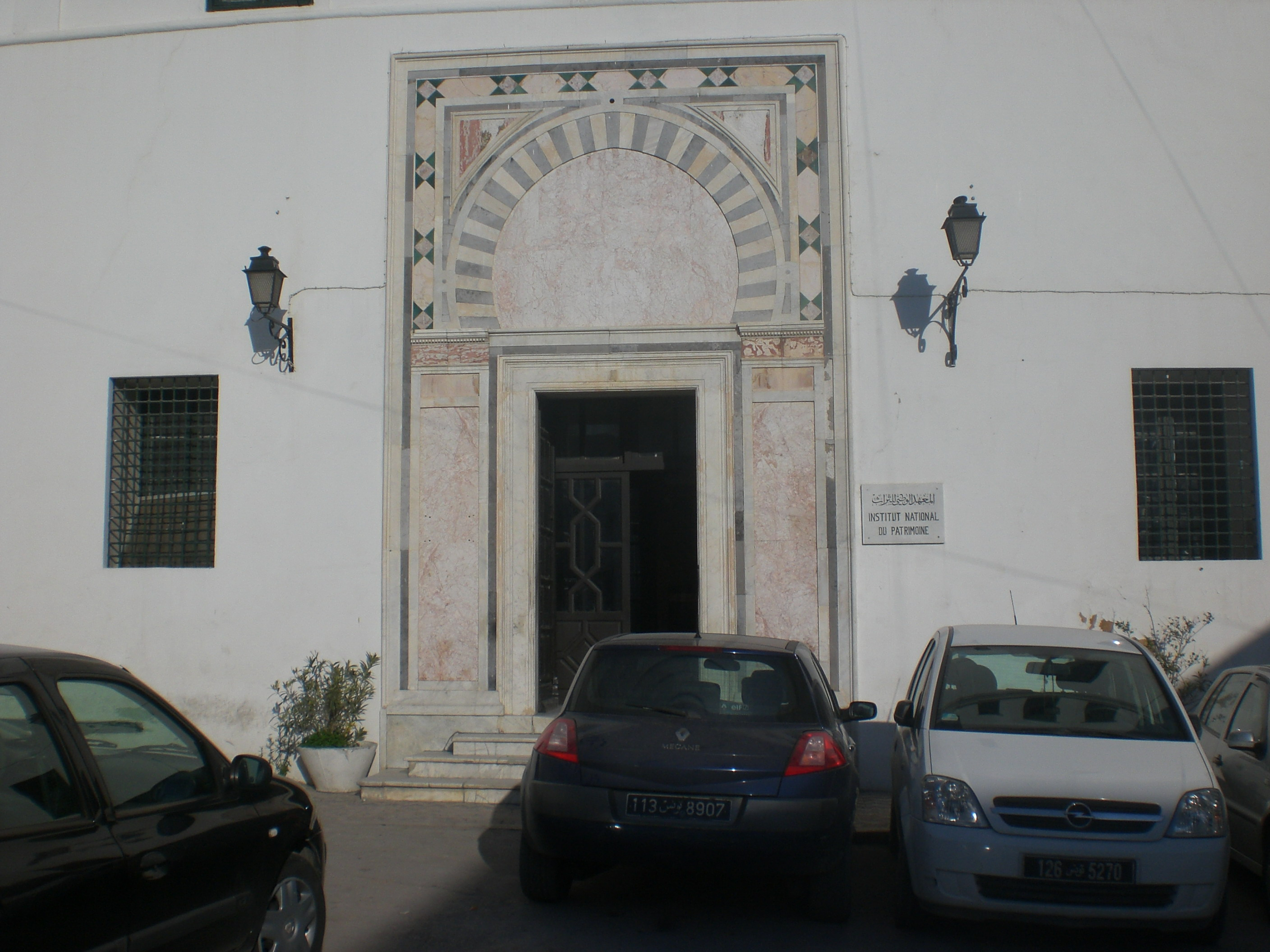 The entry of the Institut National du Patrimoine-Tunis